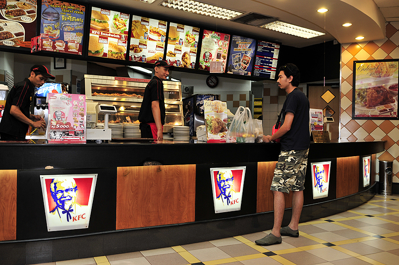 KFC Bandung Supermall